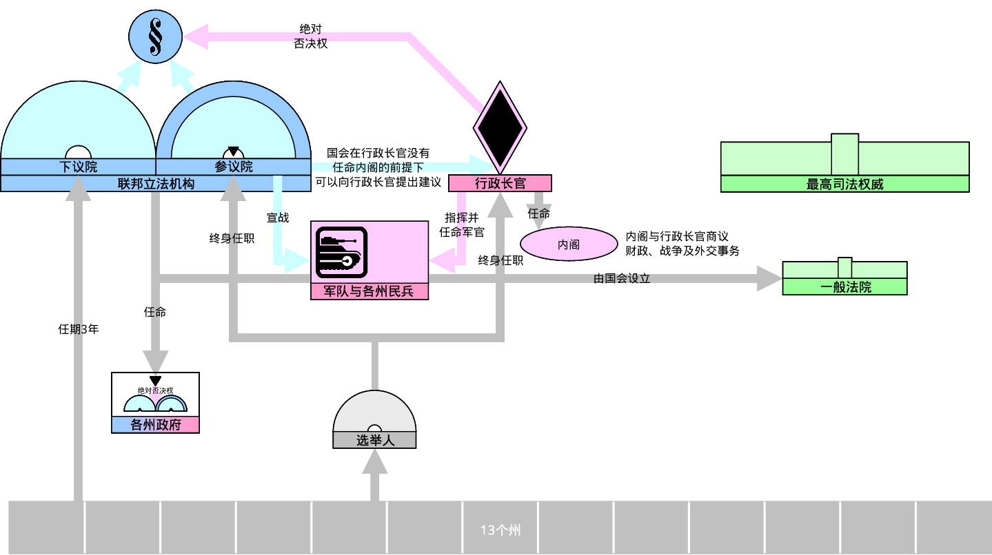 A diagram of the Hamilton Plan presented at the Constitutional Convention in the United States in 1787.